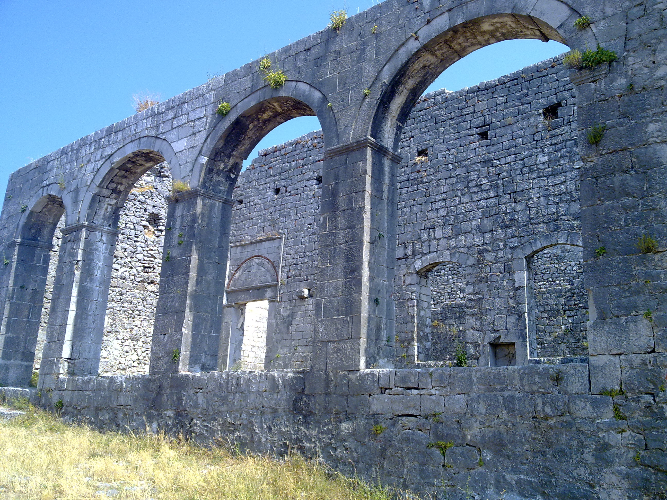 Ruins of church in Shkoder fortress.